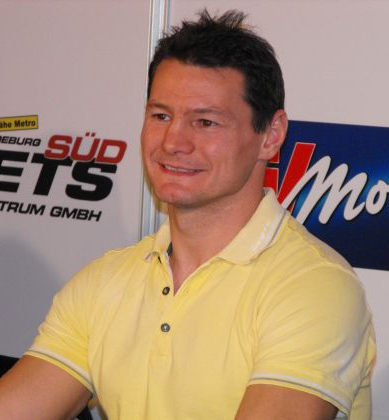 Hungarian Zsolt Erdei, former light heavyweight world champion and now cruiserweight champion